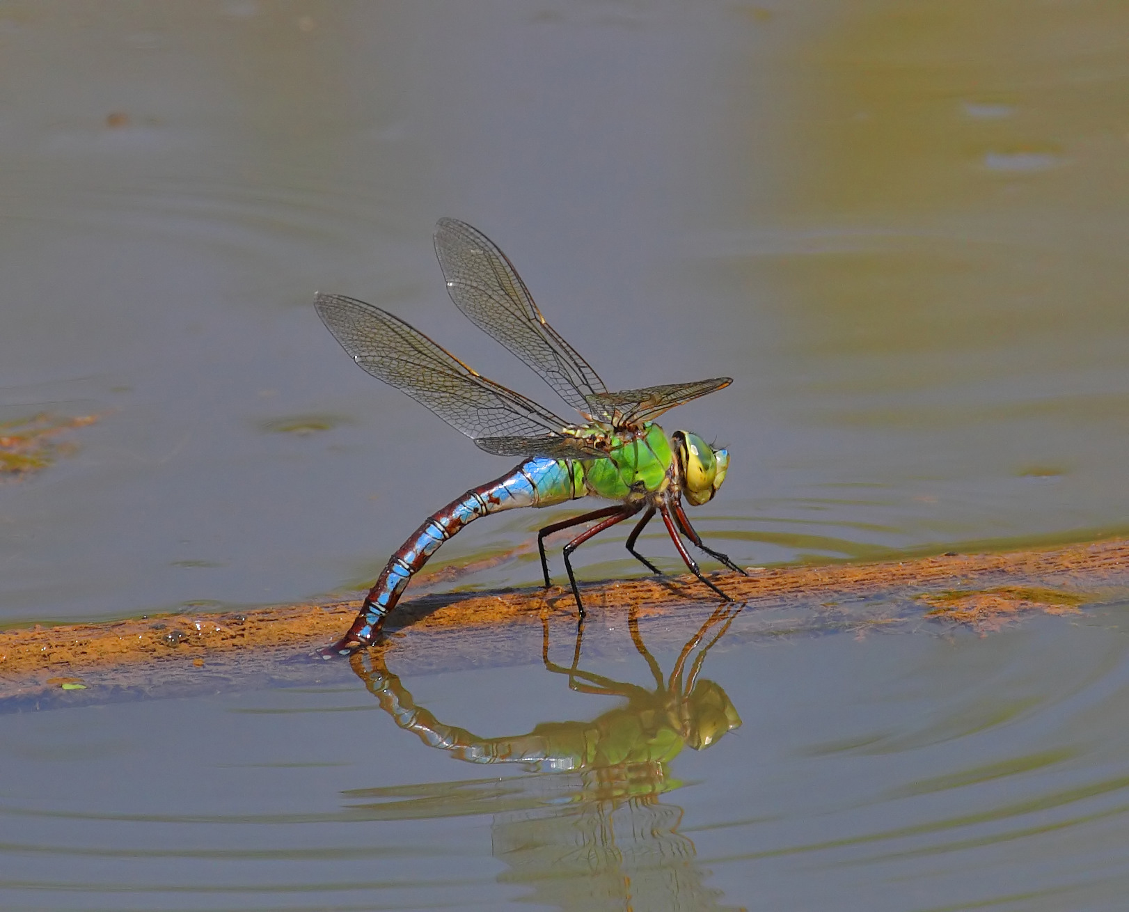 femmale Emperor (dragonfly)